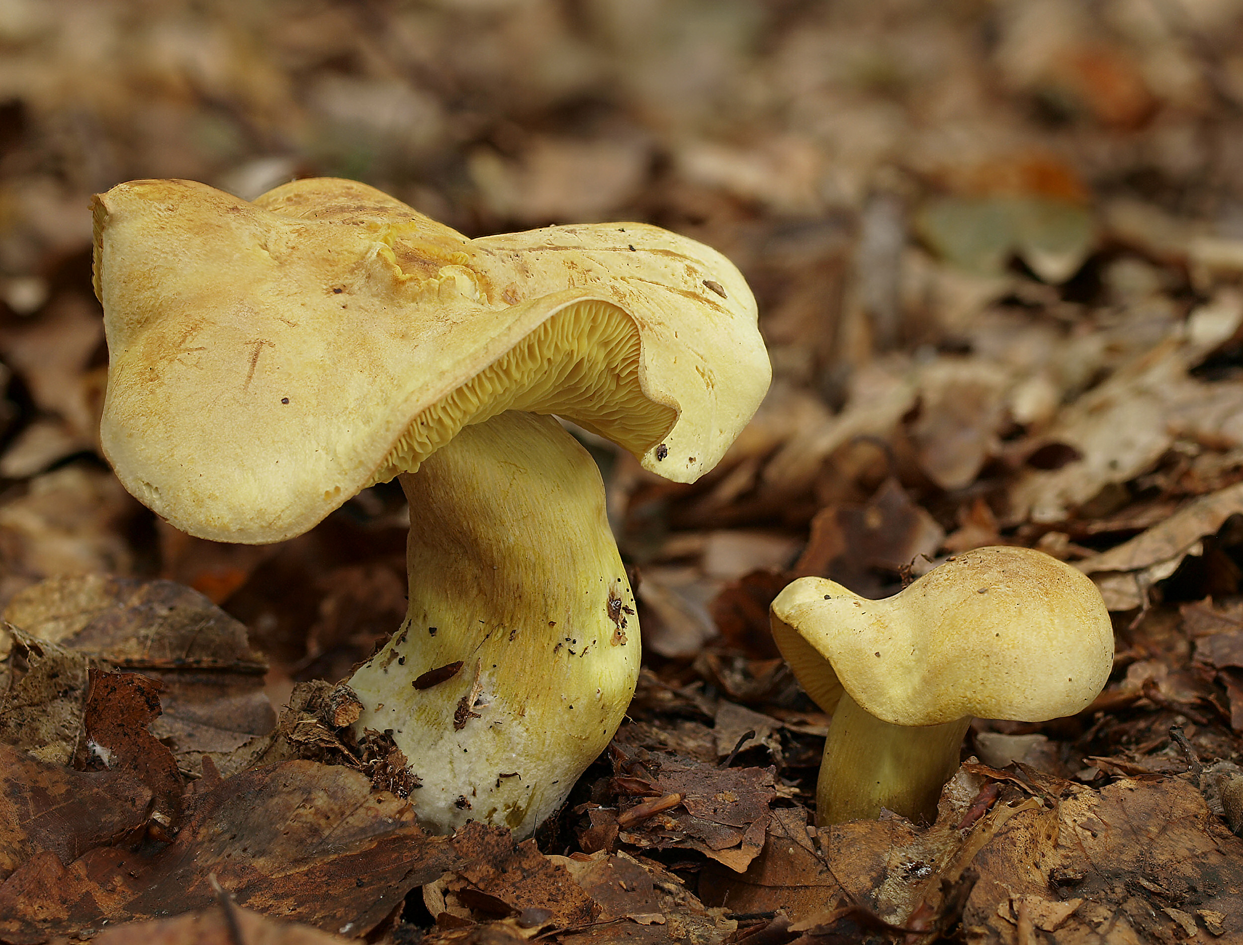 Tricholoma sulphureum